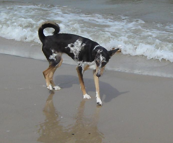 Collie whippet mixed-breed